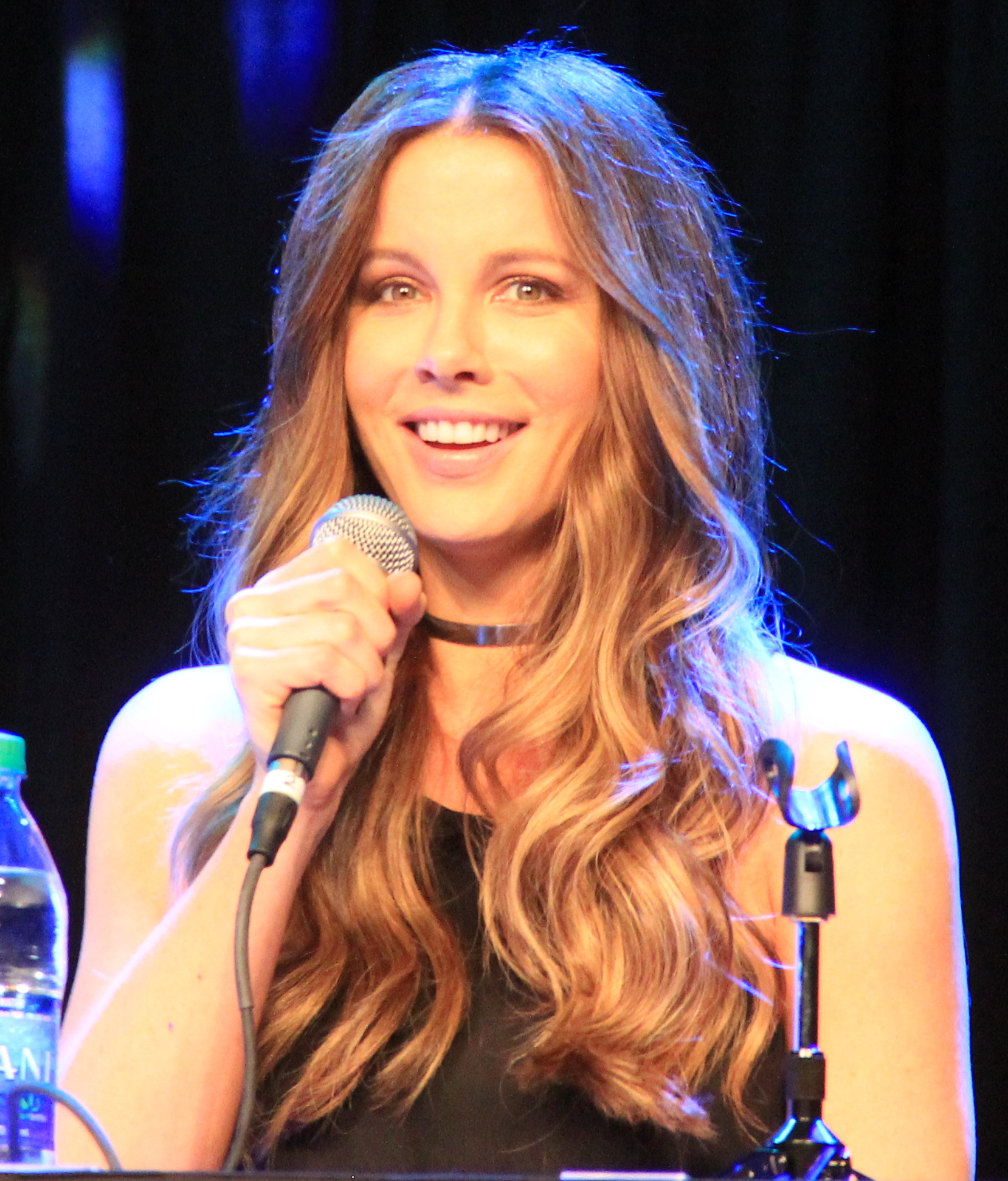 Kate Beckinsale at the Comicpalooza 2016